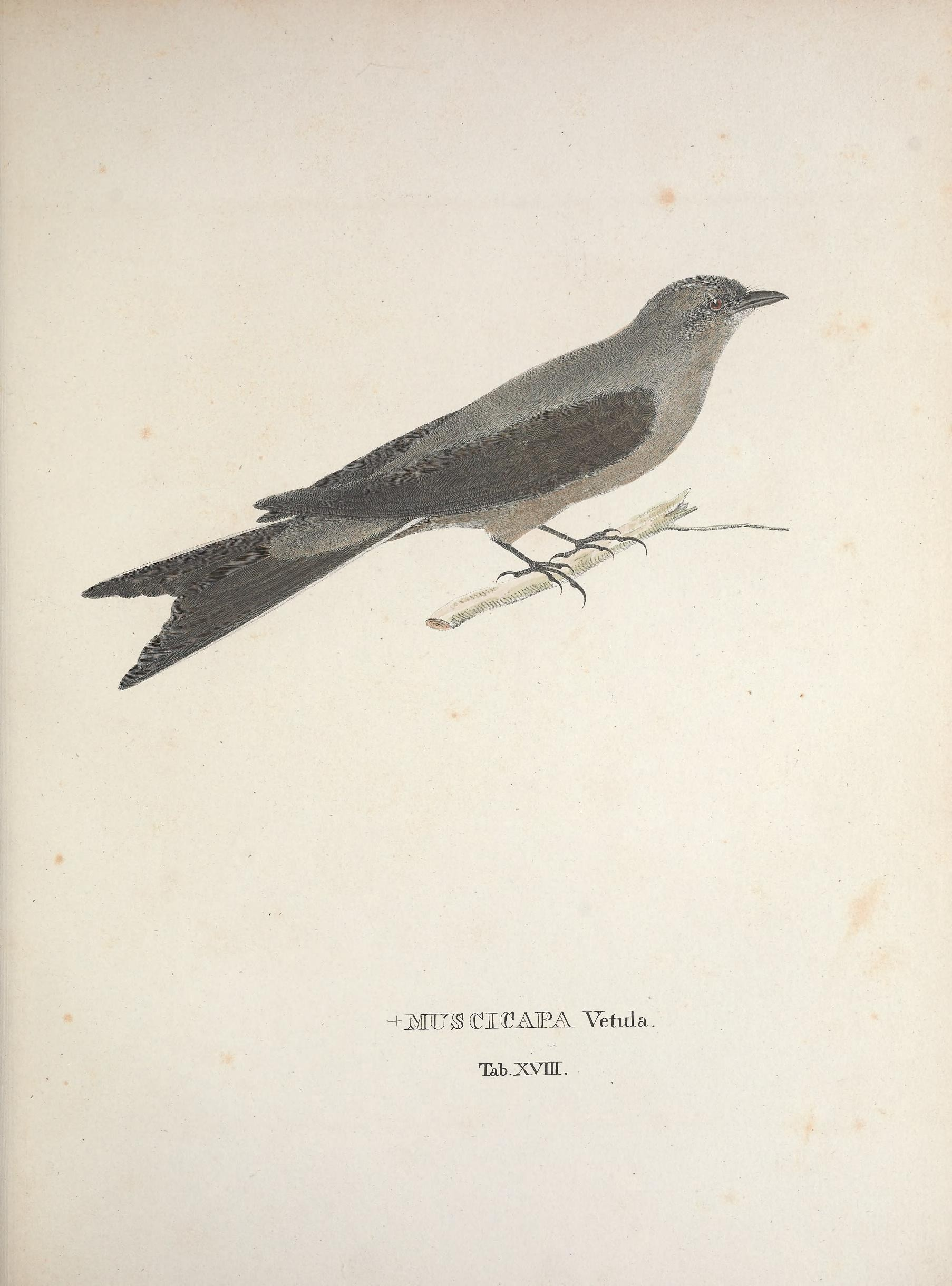 Avium species novae, quas in itinere per Brasiliam annis MDCCCXVII-MDCCCXX /. Monachii :Typis Franc. Seraph. Hübschmanni,1824-1825..